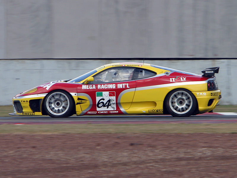 No. 64 GPC Ferrari shared by Charles Kwan and Matthew Marsh